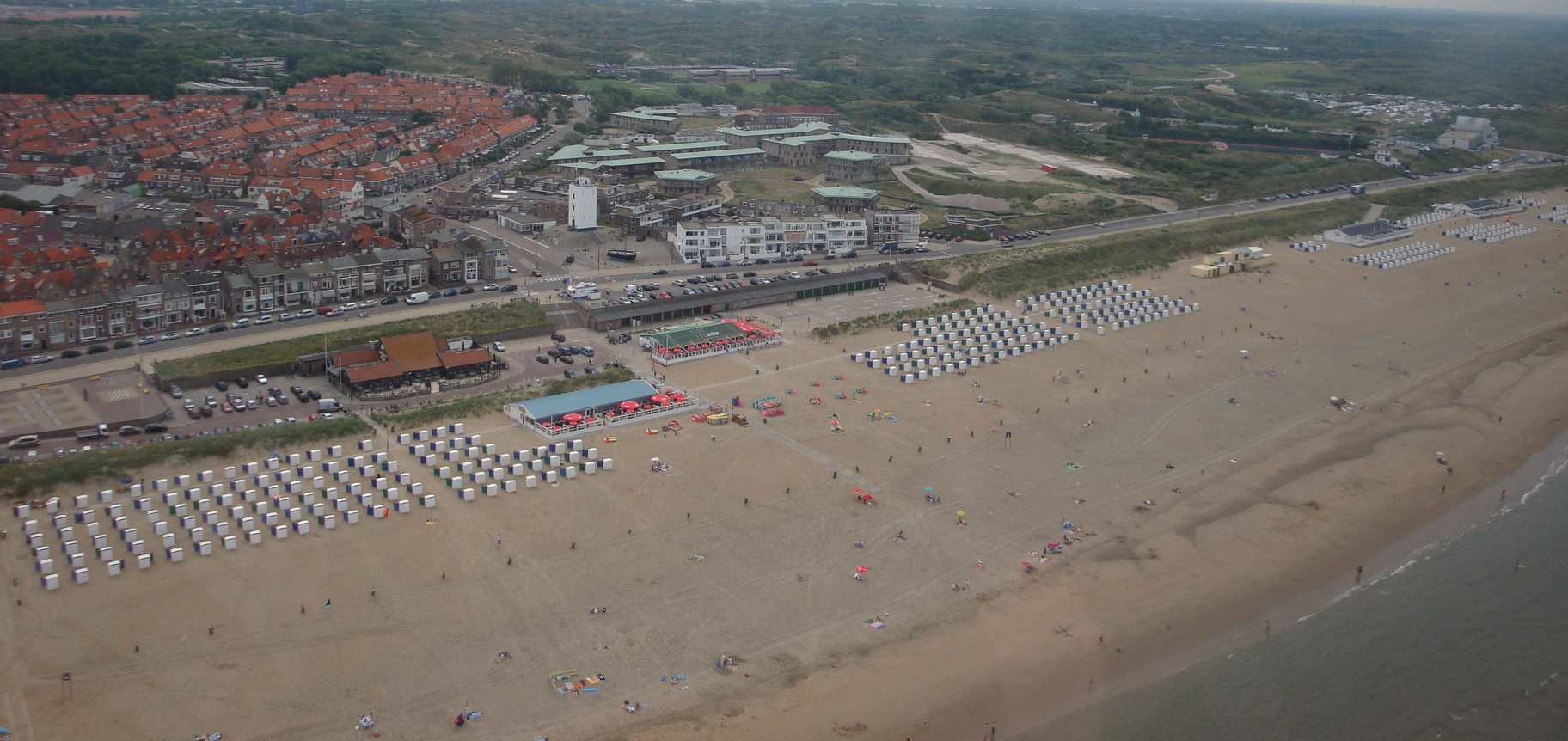 Katwijk aan Zee. Photo taken from a helicopter on july 3, 2010.